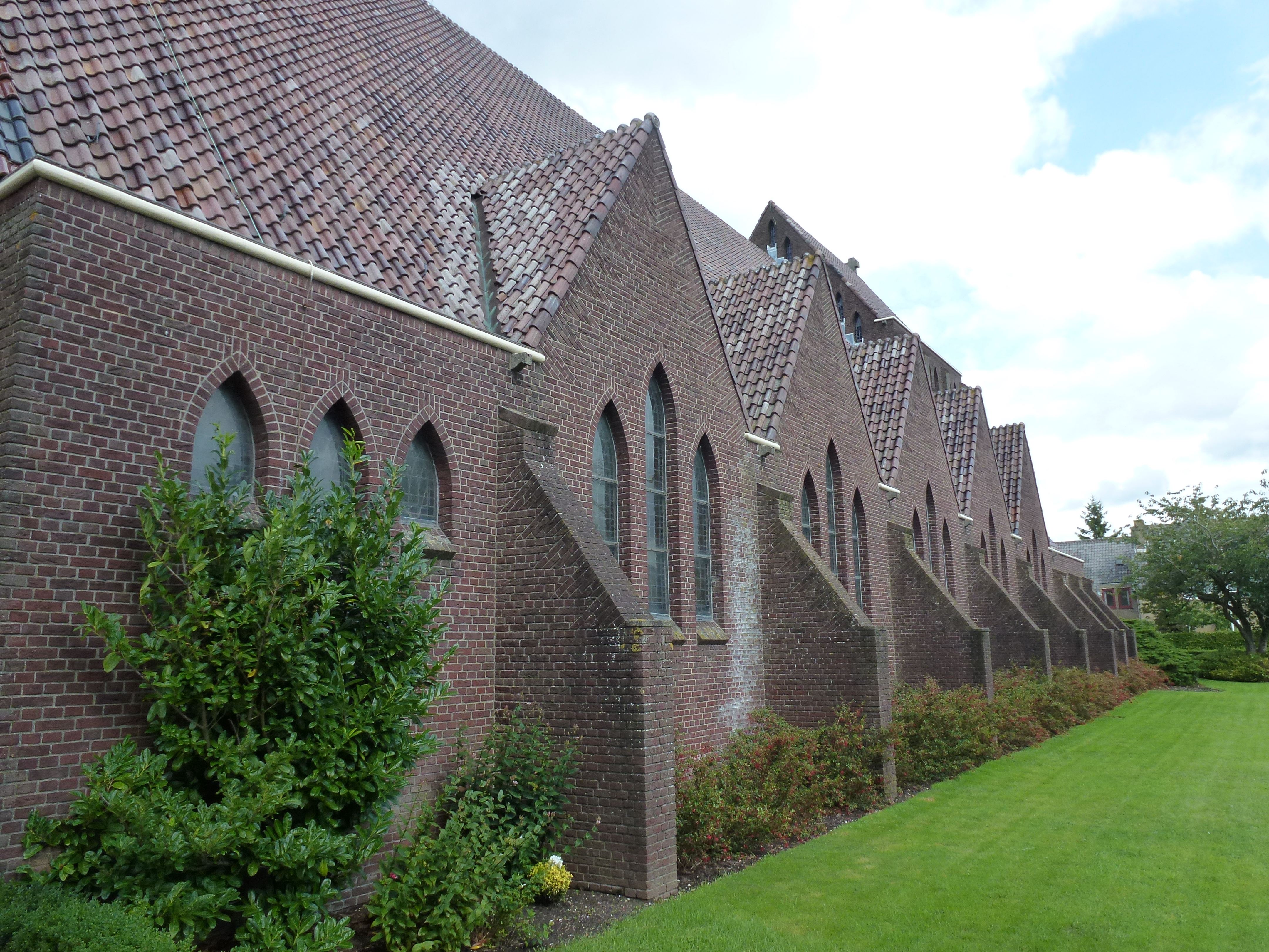 Buttresses of a church in Nieuwkoop in the Netherlands